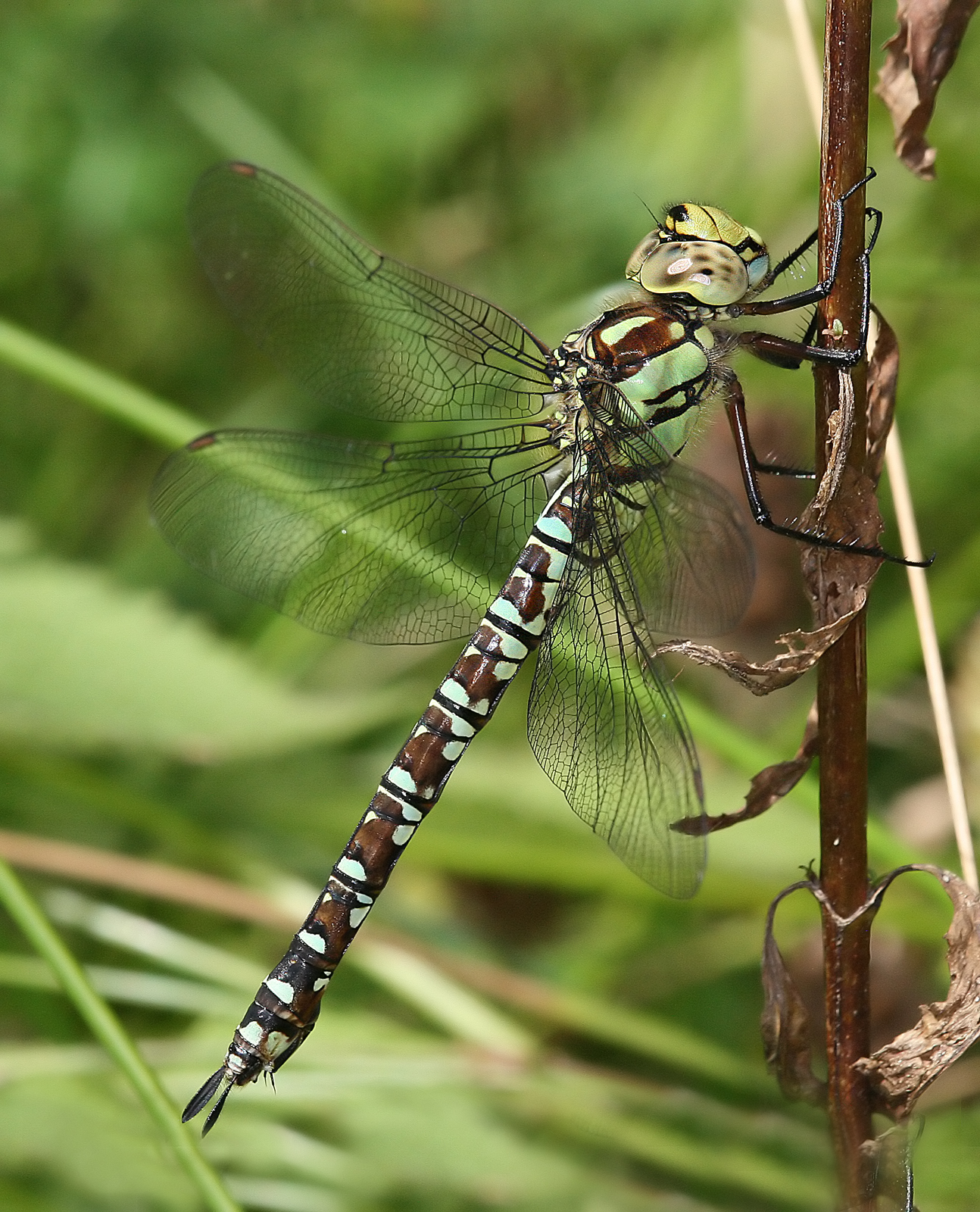 Description: Aeshna is the scientific name of a genus of dragonflies from the family Aeshnidae. They are also known as hawker dragonflies, or, in North America, as mosaic darners. As shown a Aeshna cyanea